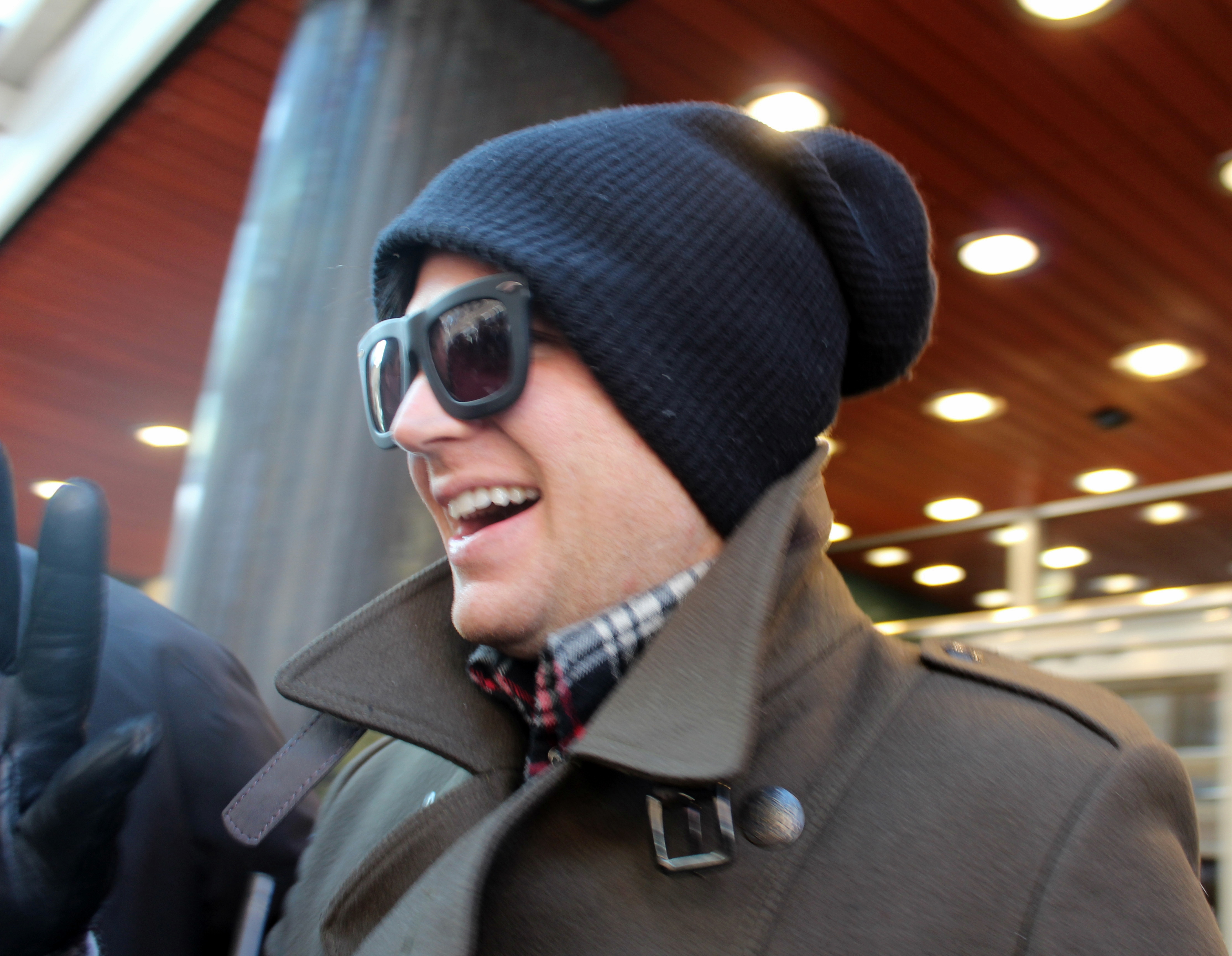 Adam Lambert - Hotel Kämp (Helsinki, Finland)